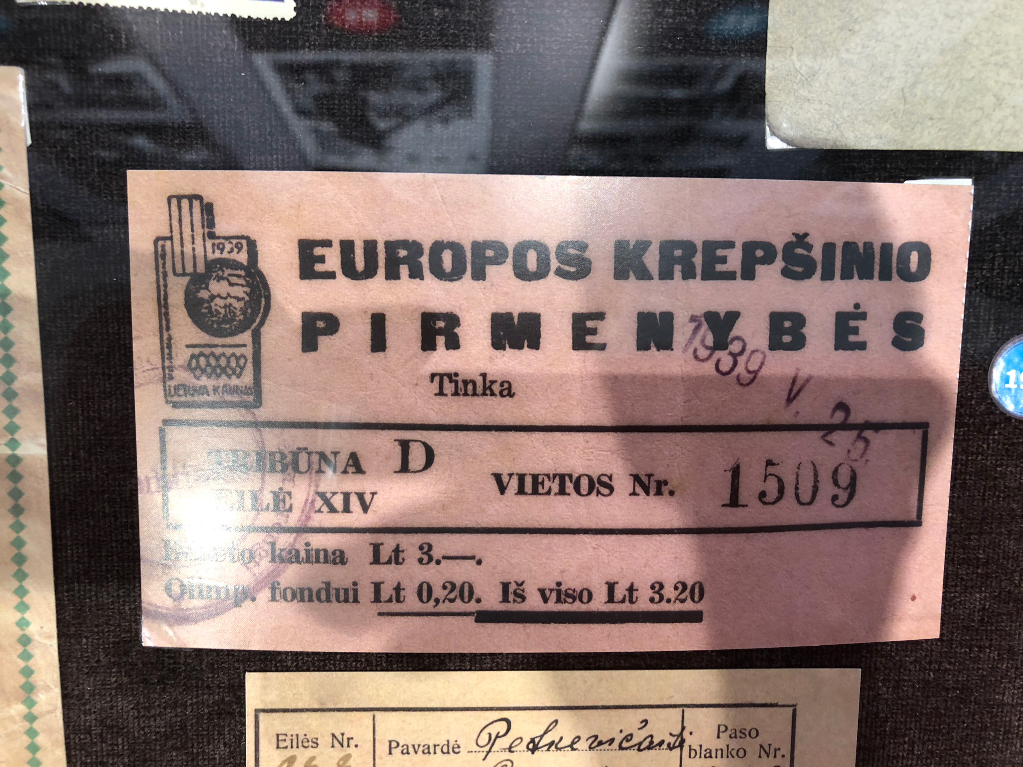 Ticket to the basketball game of the EuroBasket 1939 in Kaunas, Lithuania. It is exhibited at the Presidential Palace in Kaunas.